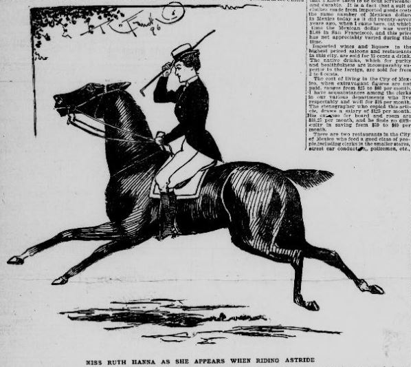 Drawing of Ruth Hanna Riding a horse published by The Herald in 1896